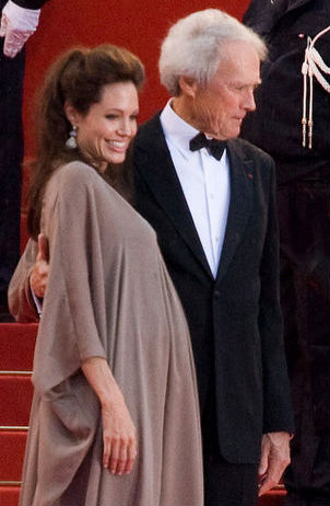 Angelina Jolie and Clint Eastwood on the red carpet of the 2008 Cannes Film Festival for their film Changeling (at that time entitled The Exchange)